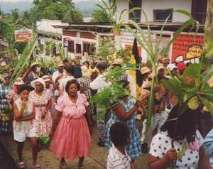 Garifunas people at the SanIsidro Labrador street celebration in Livingston (Guatemala). May 1996 Author: Eve Demaziere